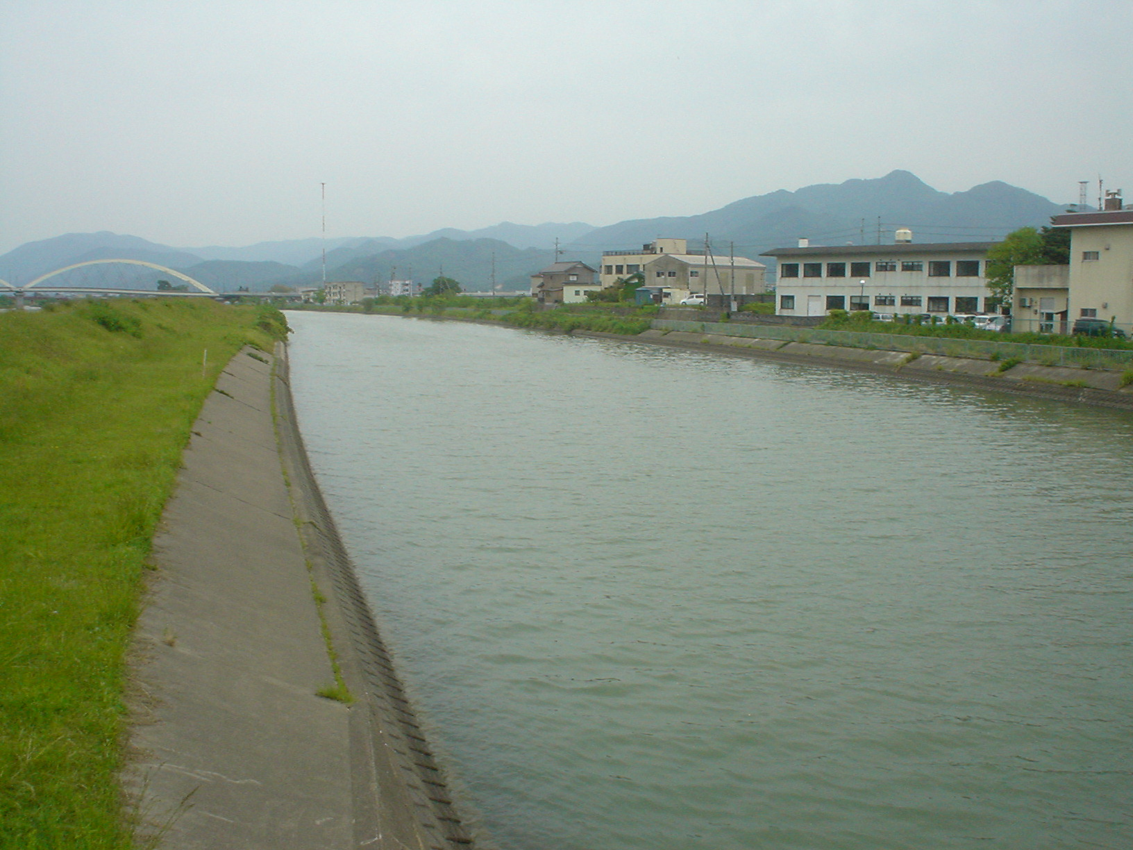 Tada River in Fukui, Japan.